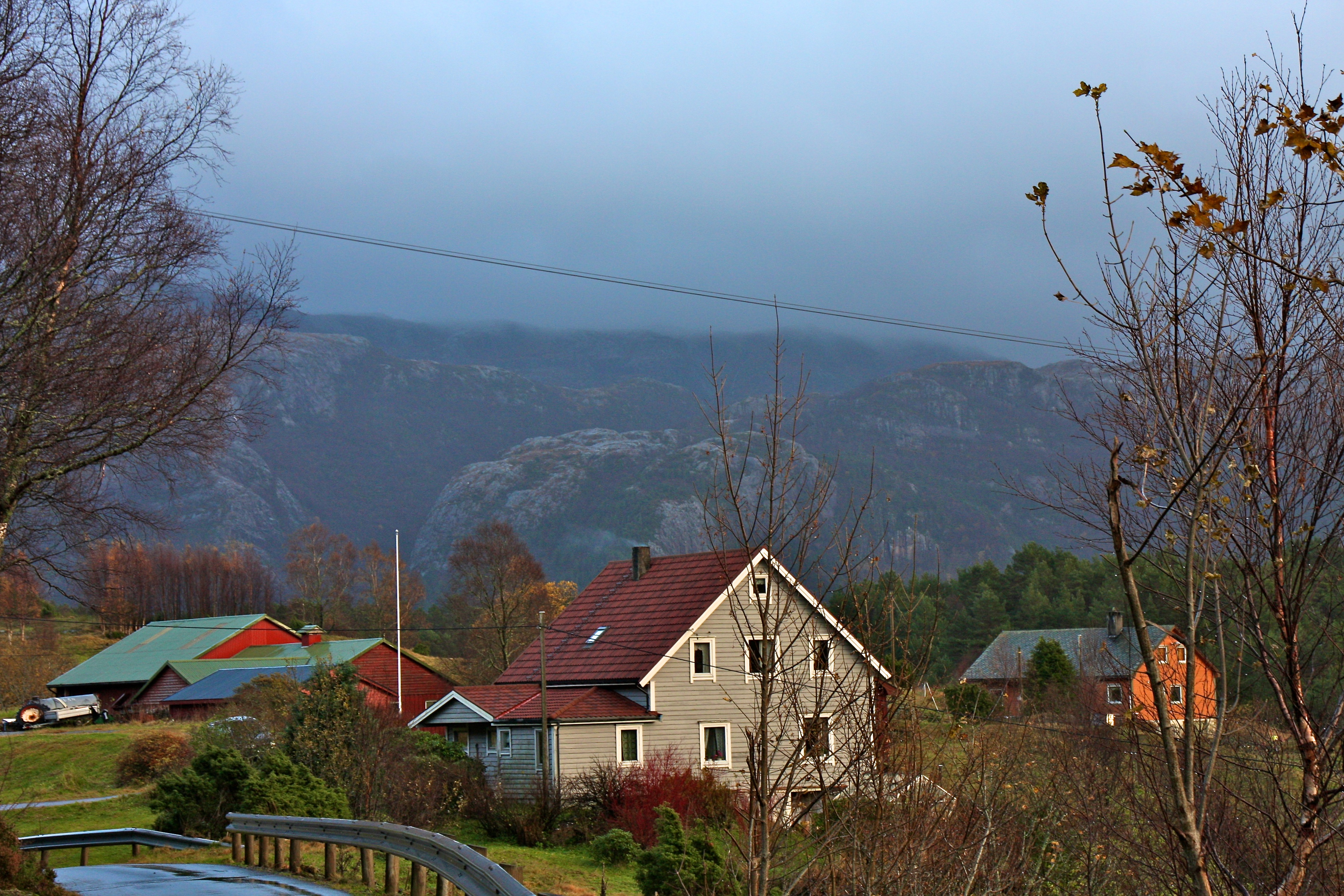 Vatne (Gulen) in Gulen municipality, Norway.